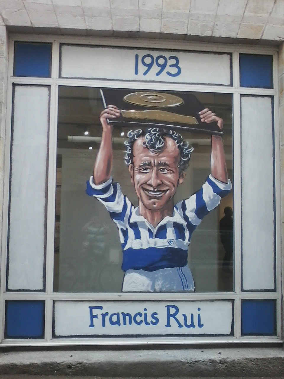 Fresques Francis Rui musée Jaurès Castres 2018